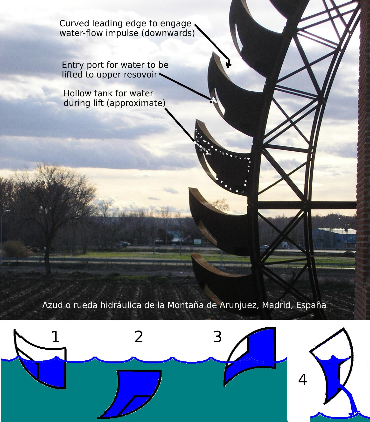 This is a bucket lift water-lift, approximately 10m diameter originally for agriculture, now for municipal gardens.